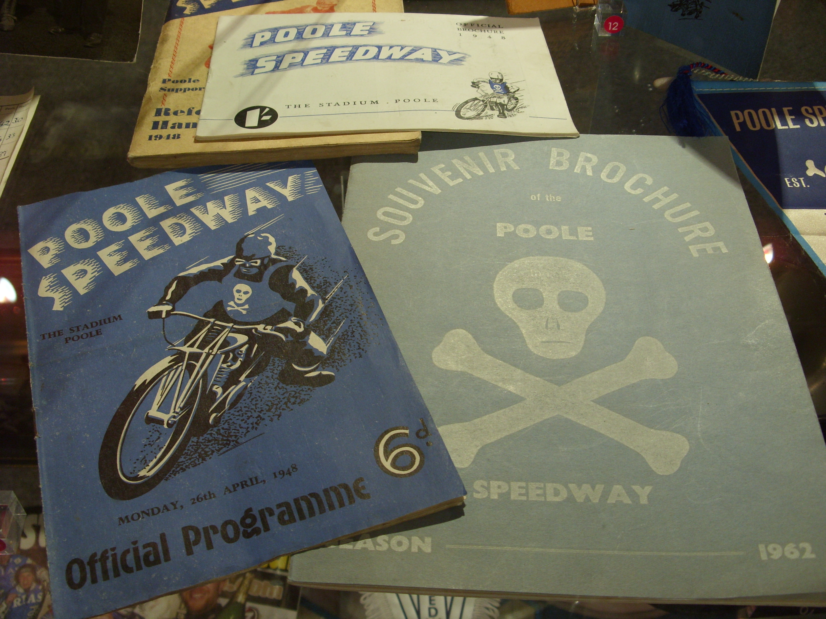 Two Poole Speedway raceday programmes on display in Poole Museum.